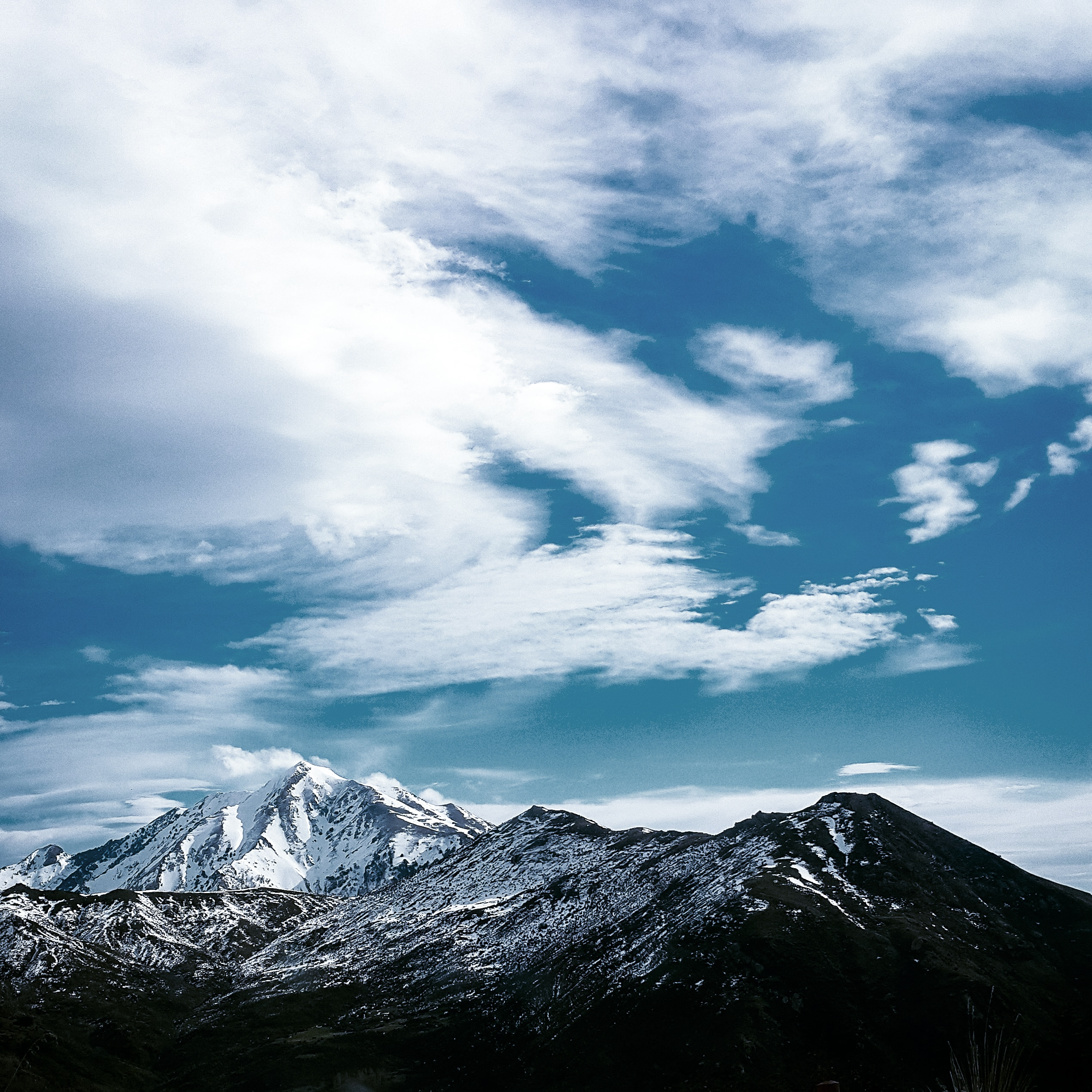 Tikjda in Algeria with white dresse This is an image with the theme "Play" from: Algeria